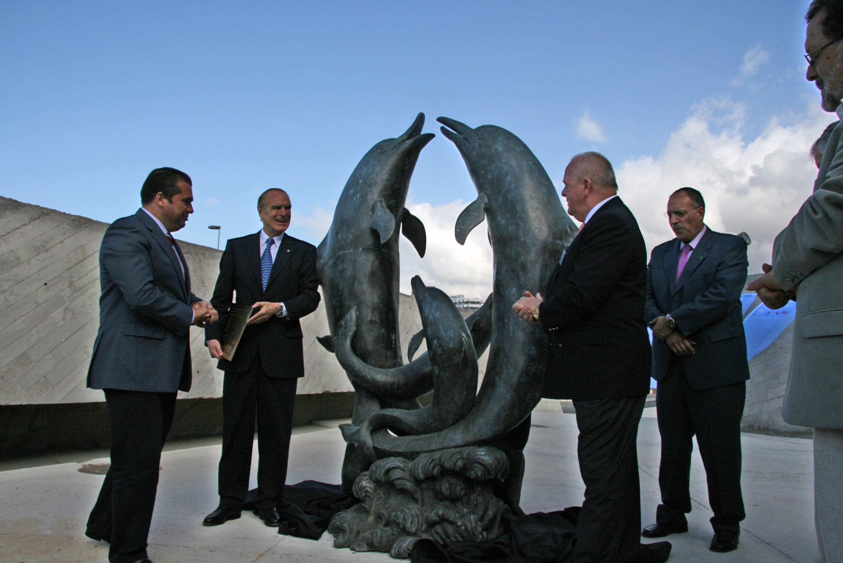 First negotiation meeting for development of West African Aquatic Mammals MoU, called "WATCH I" (Western African Talks on Cetaceans and their Habitats) in Adeje, Tenerife, Spain, October 2007.